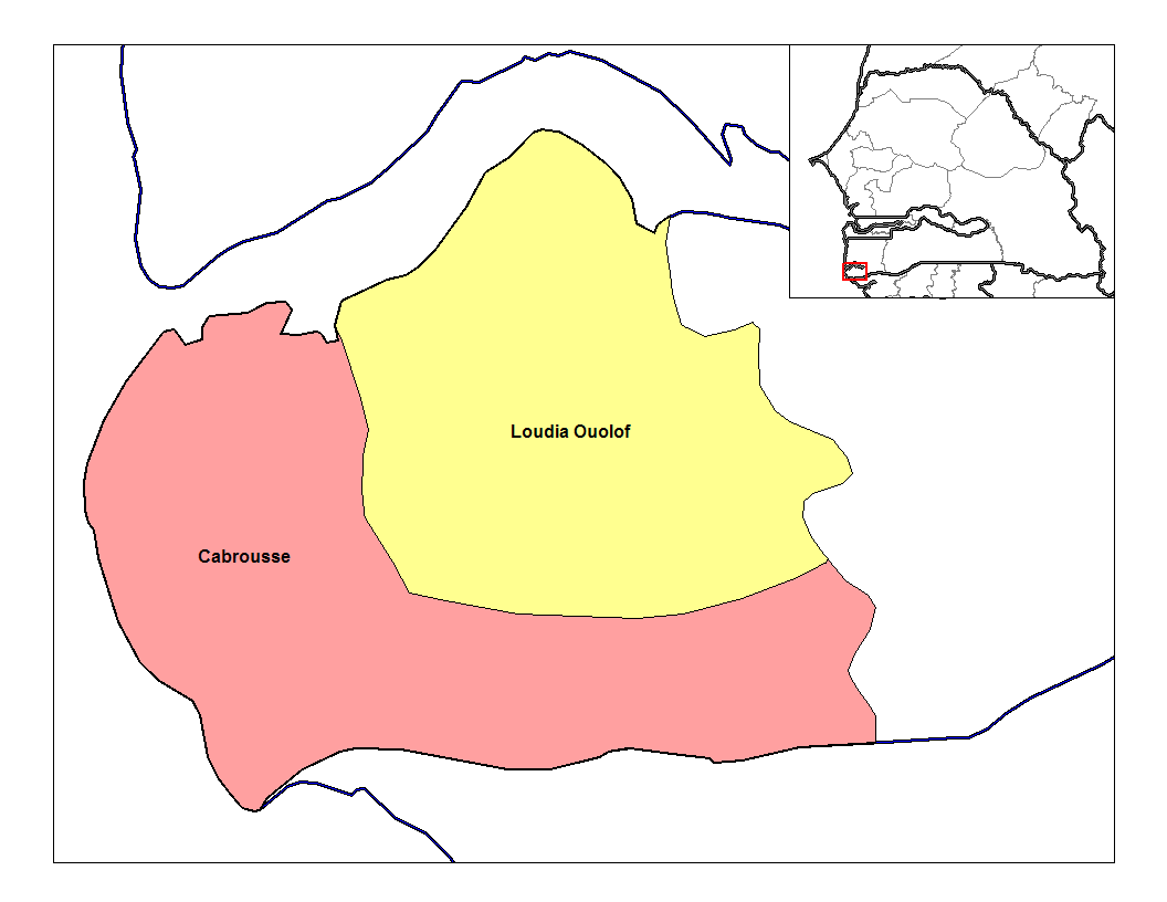 Map of the arrondissements of Oussouye department in Senegal.